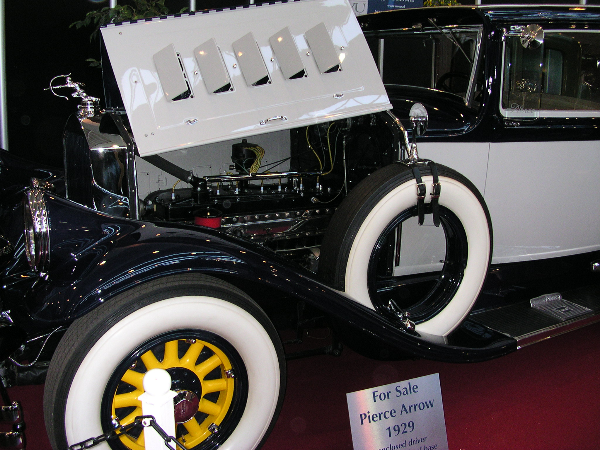 Essen Techno-Classica 2007, Pierce-Arrow 1929